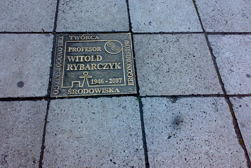 Rybarczyk - table in Zielona Góra